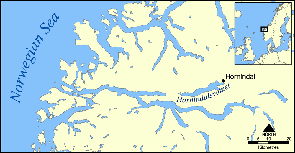 Map showing the location of Hornindalsvatnet. Created by NormanEinstein, July 19, 2005. Other Version = Image:Nordfjord_map.png